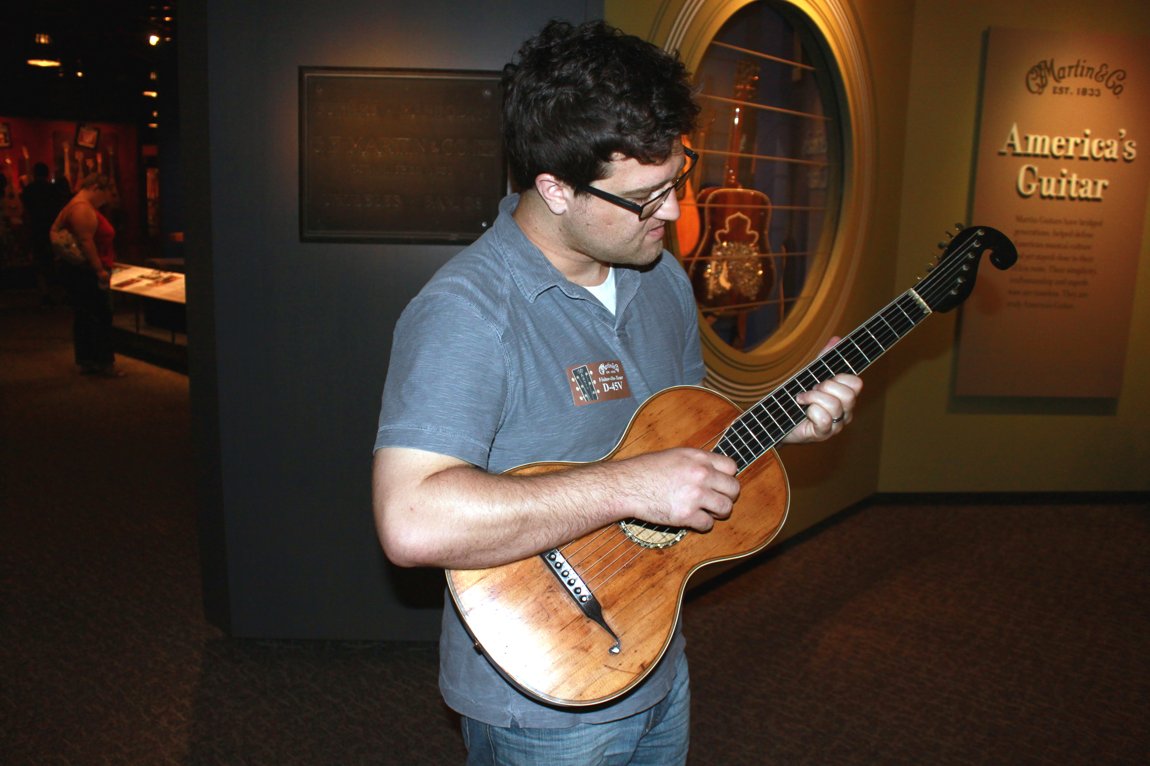 C. F. Martin Stauffer style guitar played - C.F. Martin Guitar Factory 2012-08-06 - 010